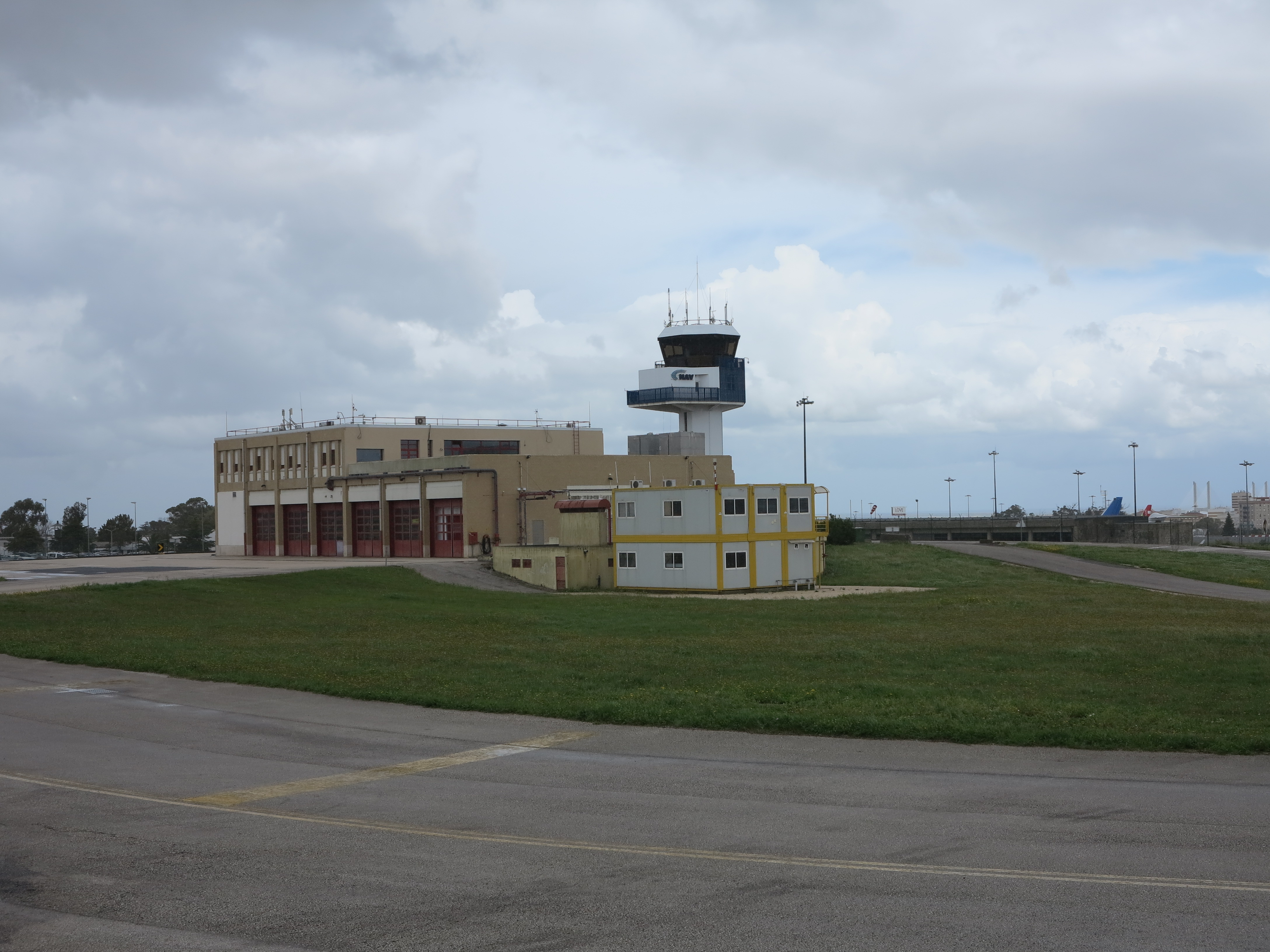 LIZBOA CONTROL TOWER